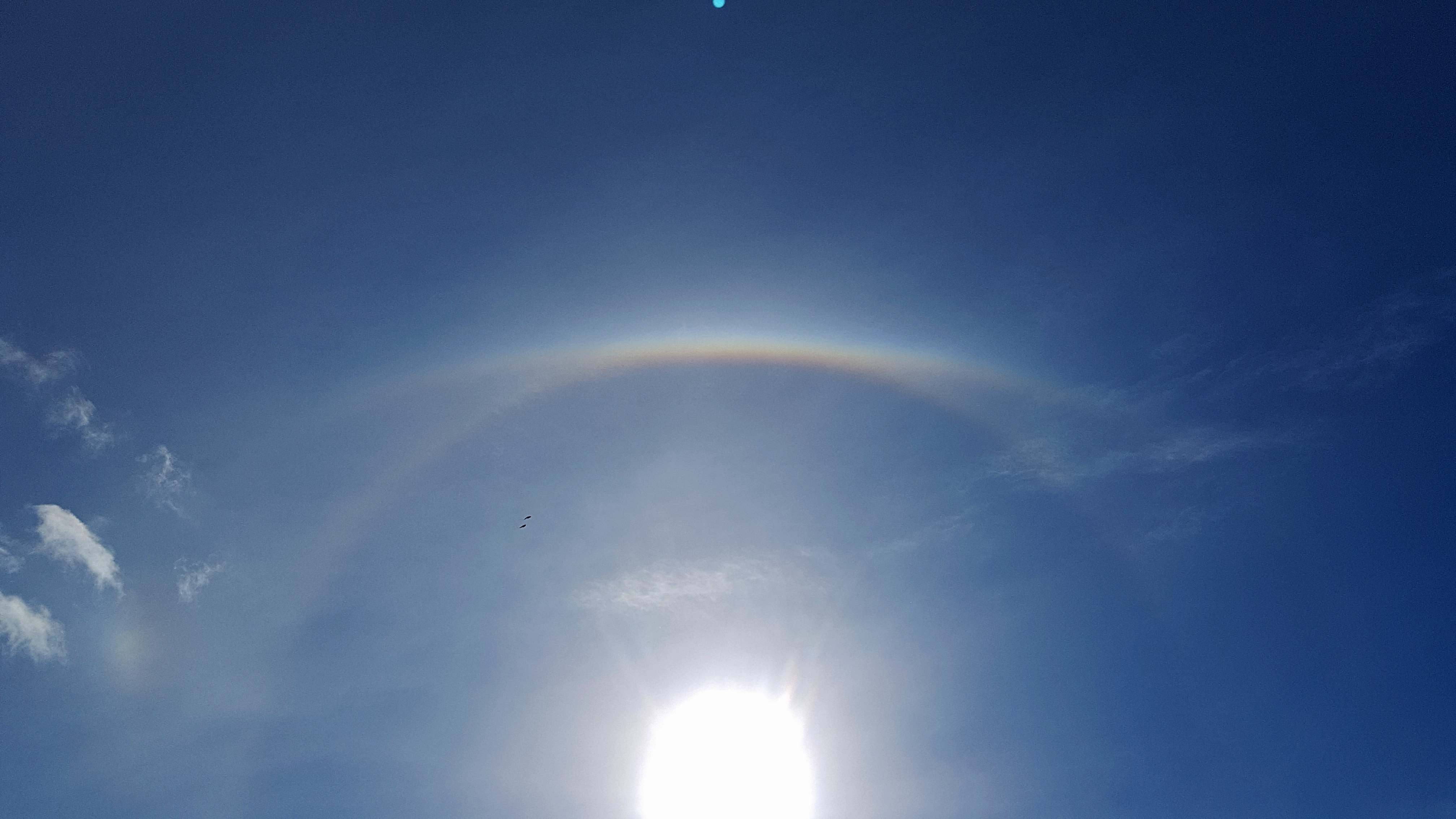 Sun Halo 25-3-2017